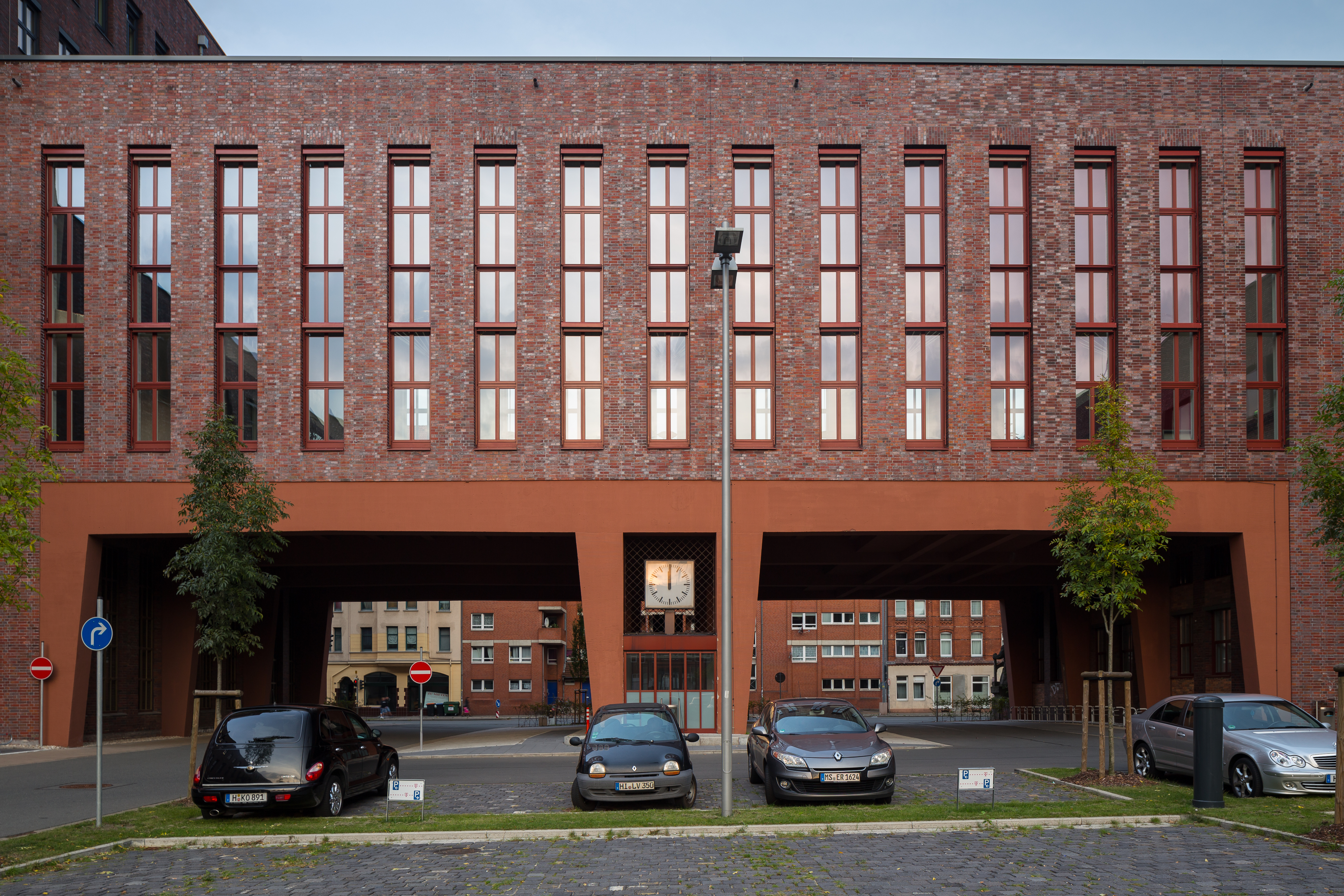 Former factory gate of former Hanomag production plant, located at Goettinger Strasse in Linden-Sued district of Hanover, Germany.